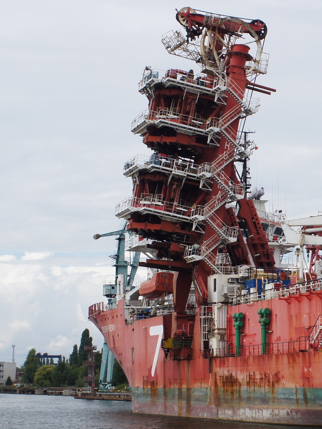 Seven Phoenix, tiltable Flex-lay 340 tons